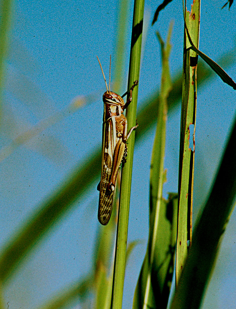 Adult Red Locust (Nomadacris septemfasciata) on wild sorghum in the Wembere Plains in Central Tanzania in February 2003.